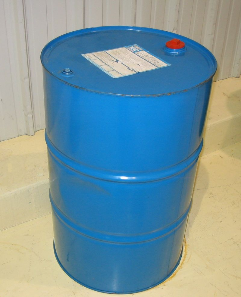 44 imperial gallon drum